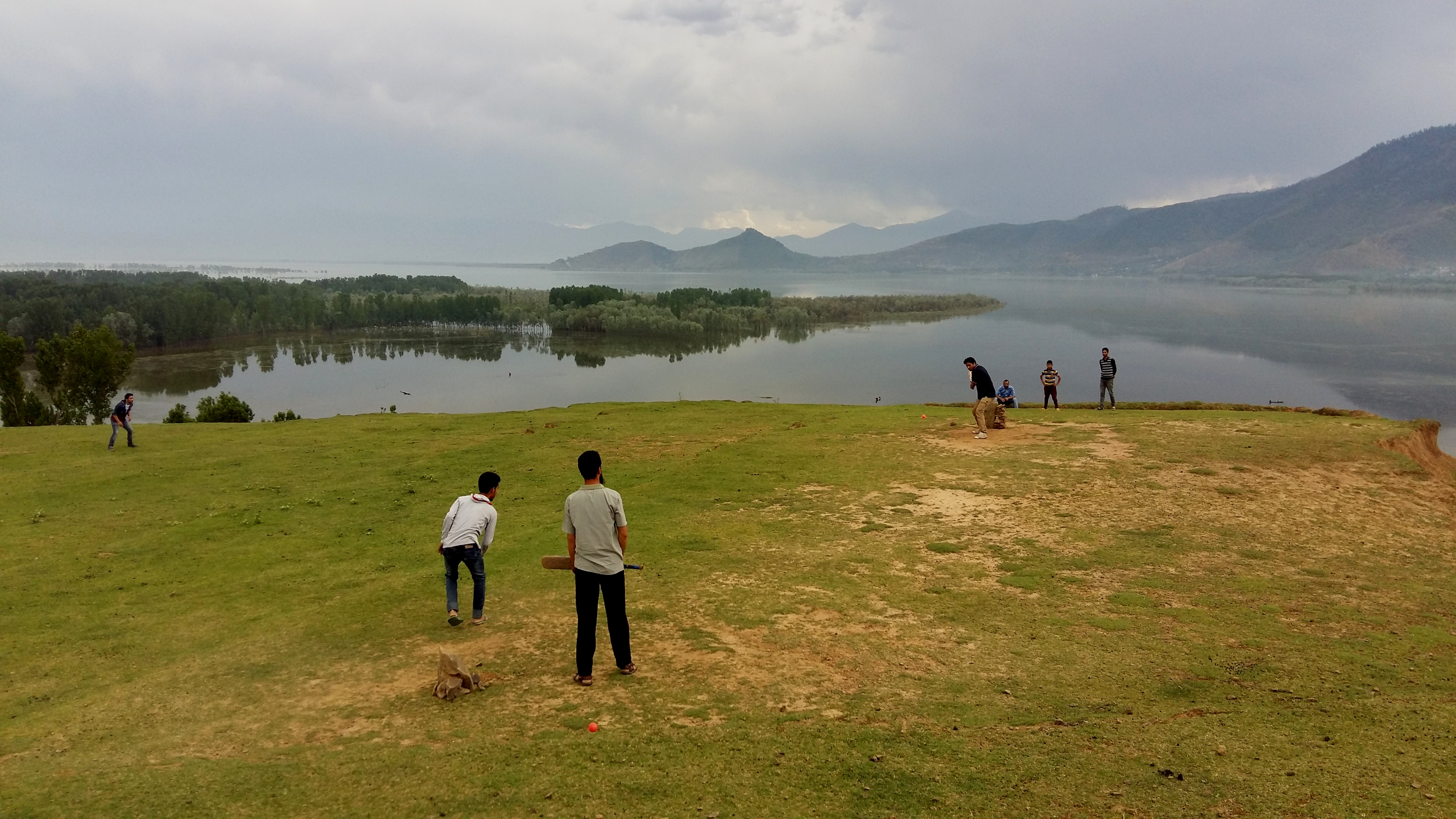 Kashmiri young playing cricket at top of Wular Lake is one of the largest fresh water lakes in Asia. It is sited in Bandipora district in the Indian state of Jammu and Kashmir.